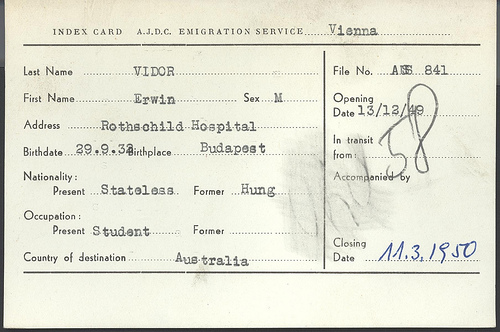 To register the tens of thousands of Displaced Persons (DPs) who flooded into the American-free zones after the end of World War II, JDC used these index cards—often the DPs only form of documentation.